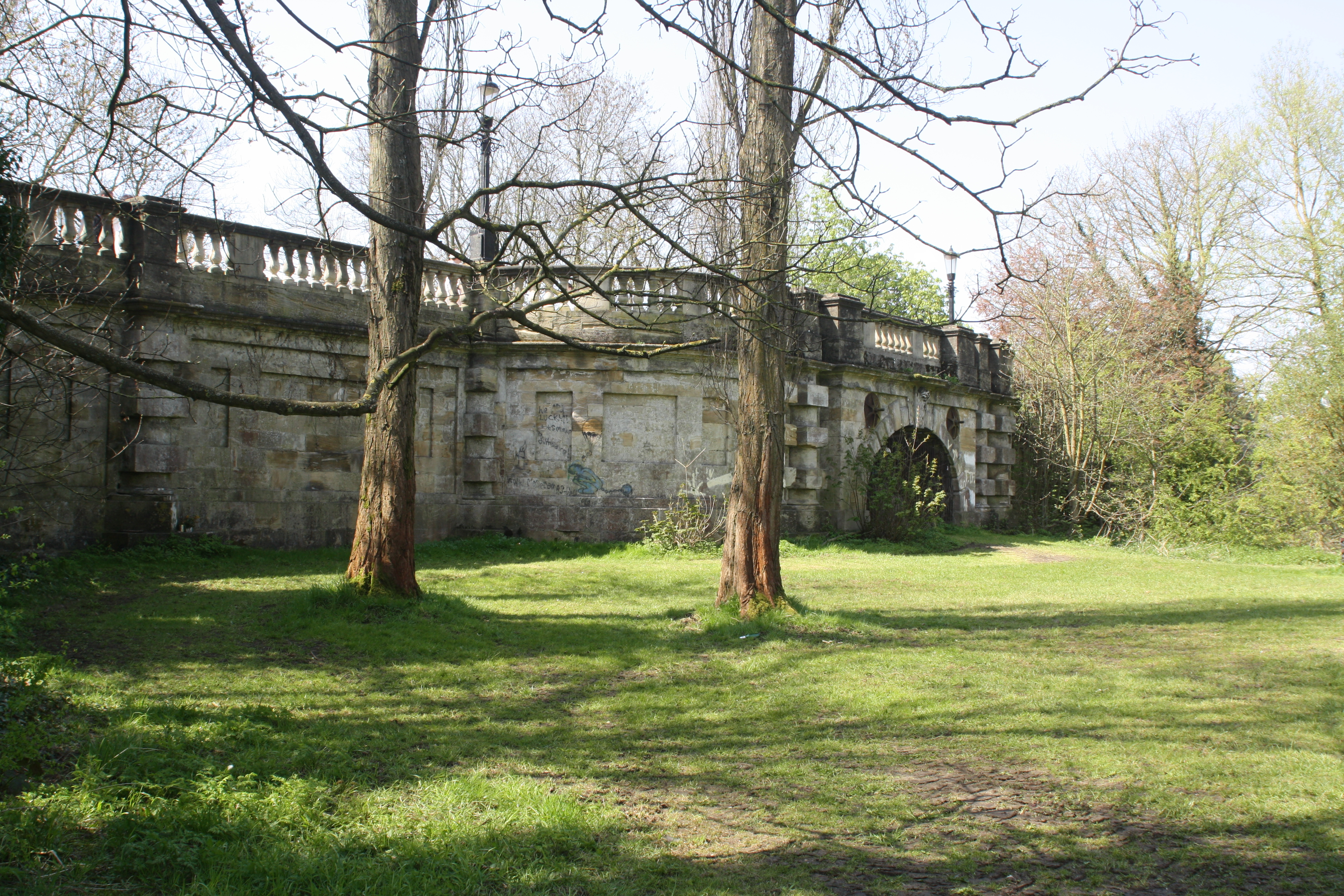 Central elliptical arch of Magdalen Bridge in Oxford seen from upstream. The only arch existing in the long central area of the bridge, this arch only conveys water when the island gets submerged